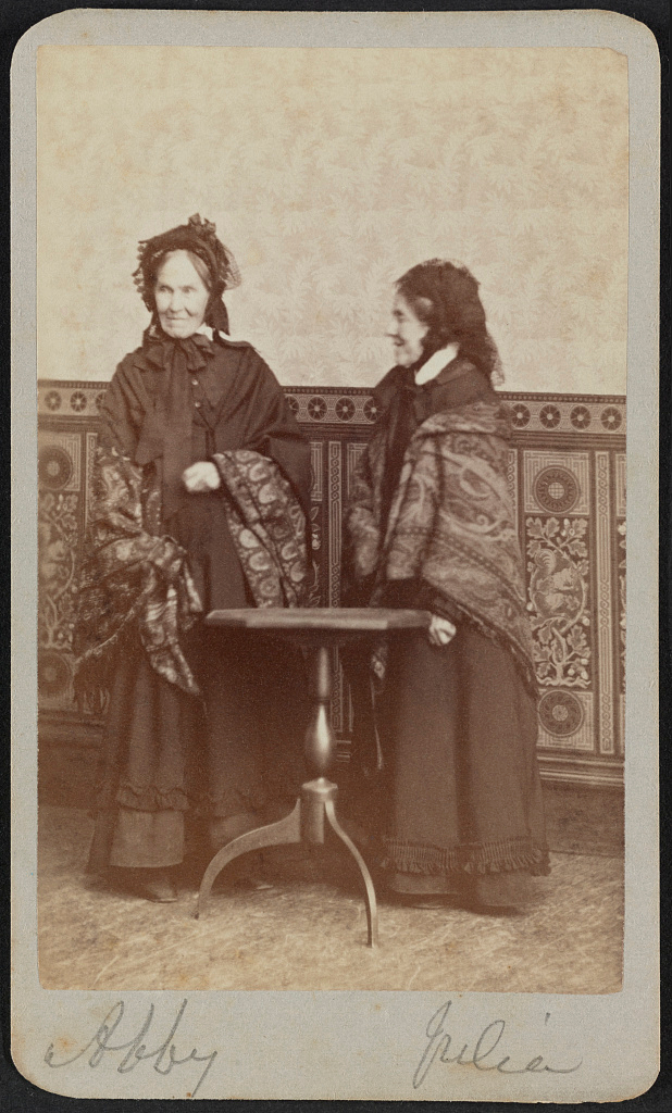 "Photograph shows suffragists Abby Hadassah Smith (1797-1878) and Julia Evelina Smith (1792-1886), wearing patterned shawls, standing informally behind a pedestal table."